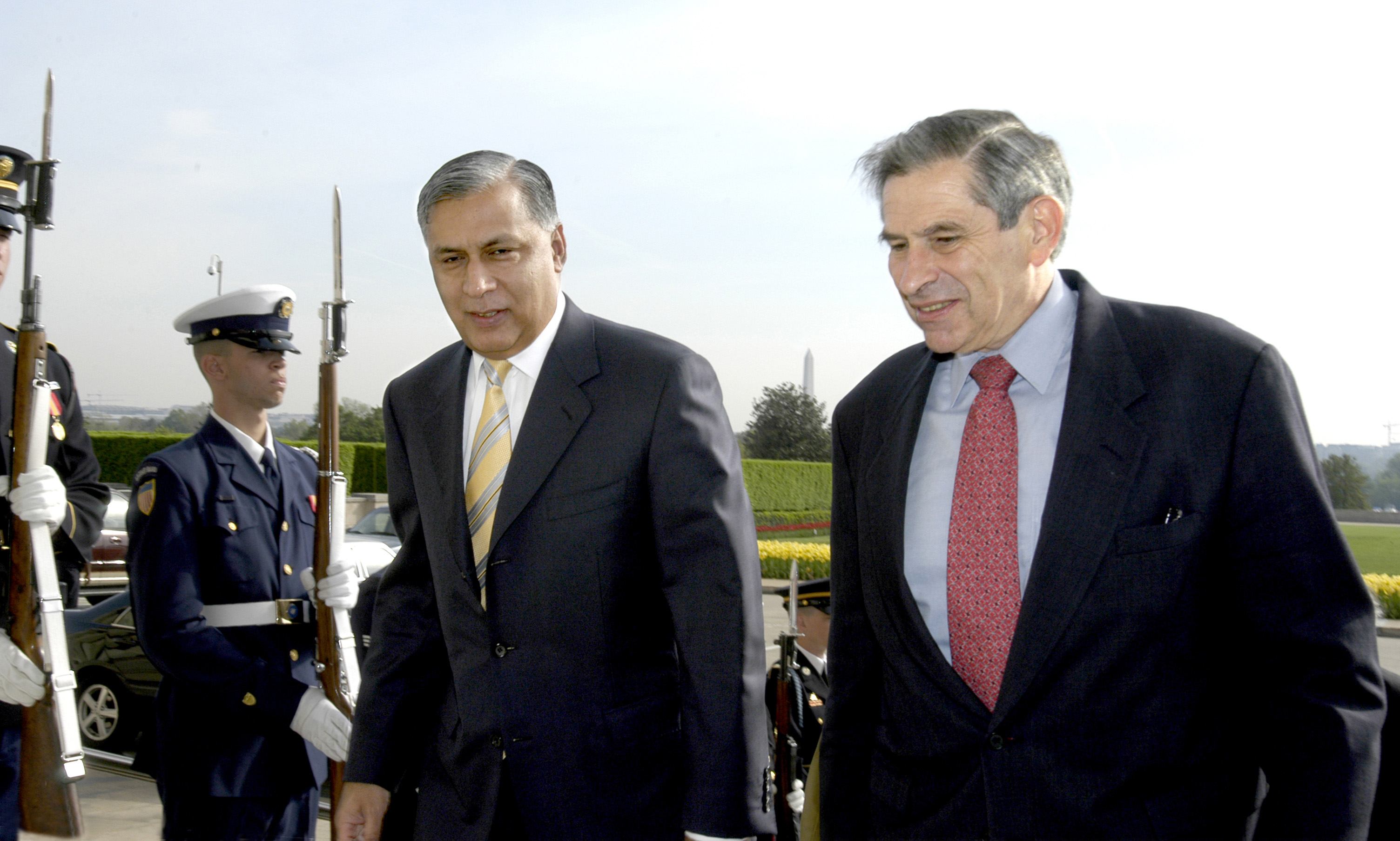 Pakistani Minister of Finance and Economic Affairs Shaukat Aziz (left) and Deputy Secretary of Defense Paul Wolfowitz (right) walk through an honor cordon and into the Pentagon on April 22, 2004.